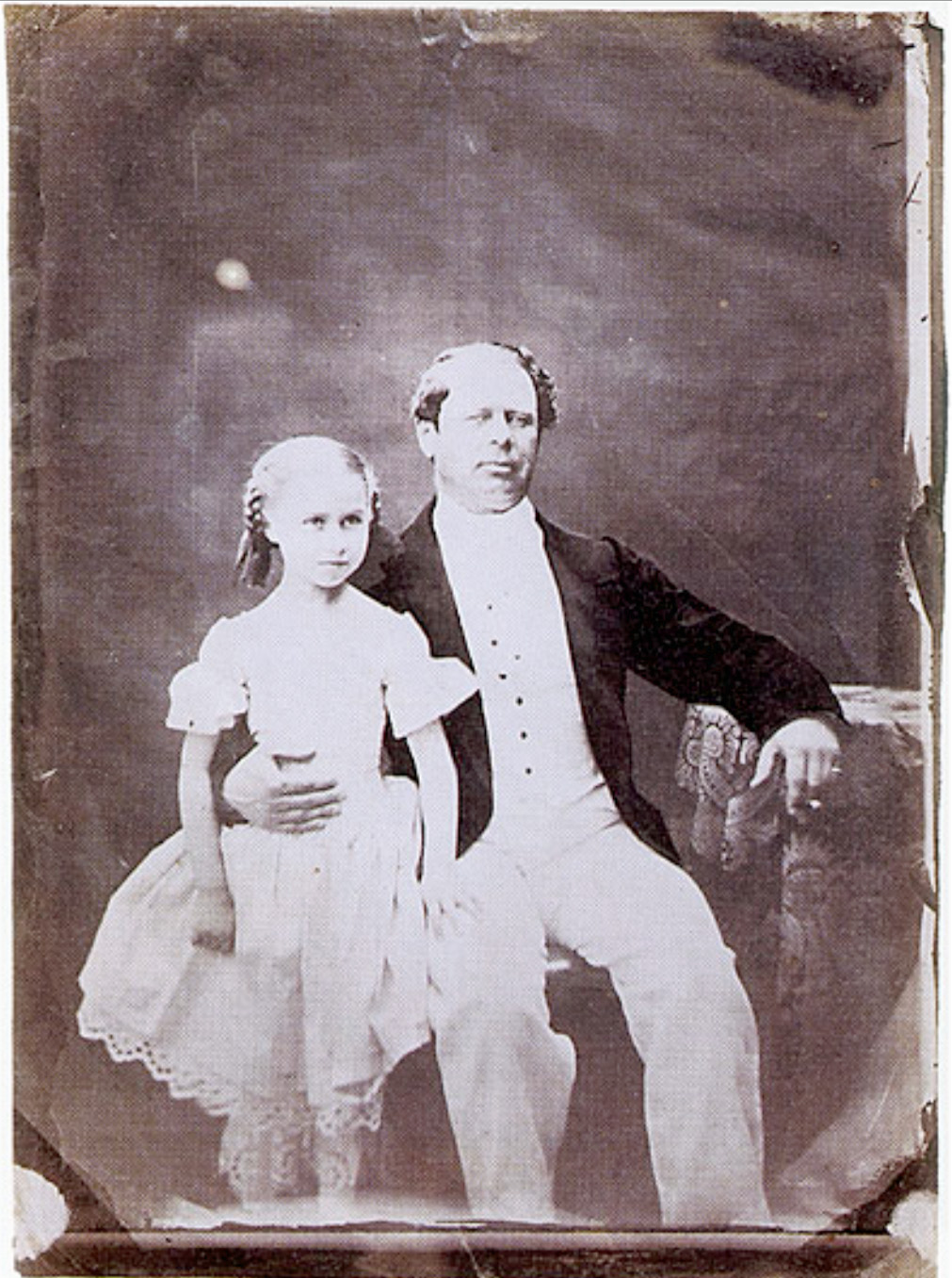 Customs officer and his daughter, around 1860. Photo by Johan Jakob Reinberg (1823–1896), Turku, Finland.